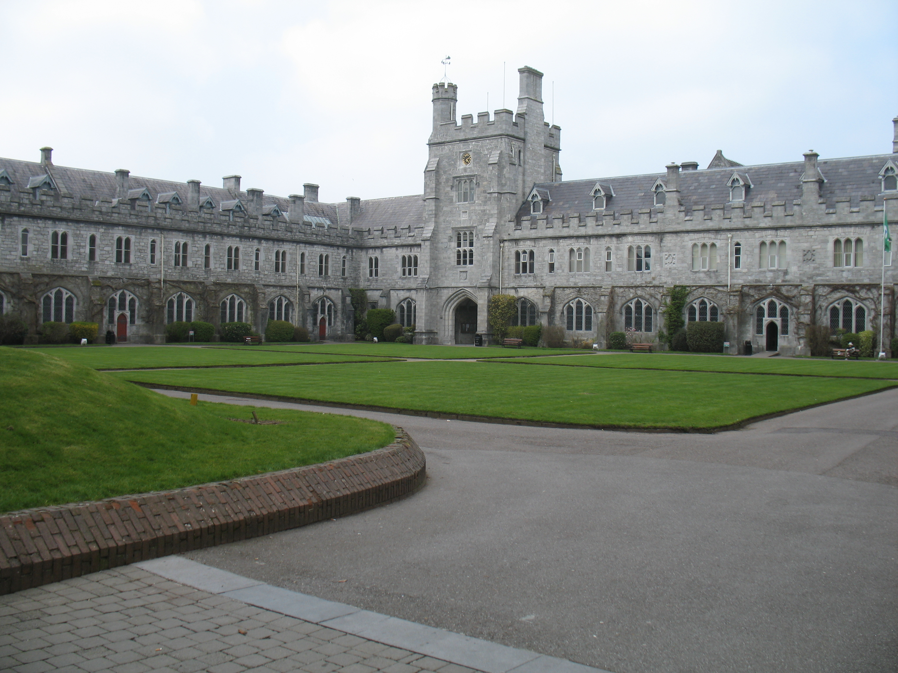 The Quad, UCC, Cork